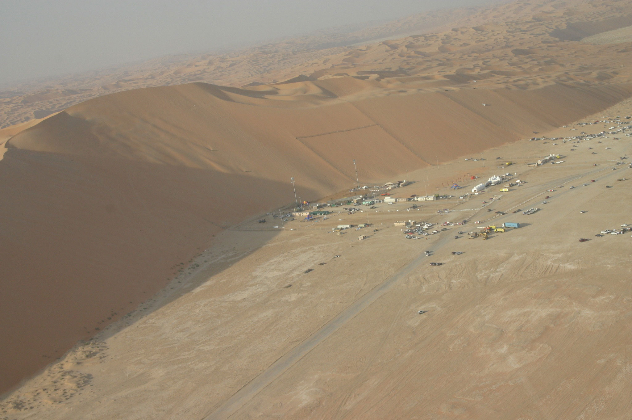 Moreeb Dunes